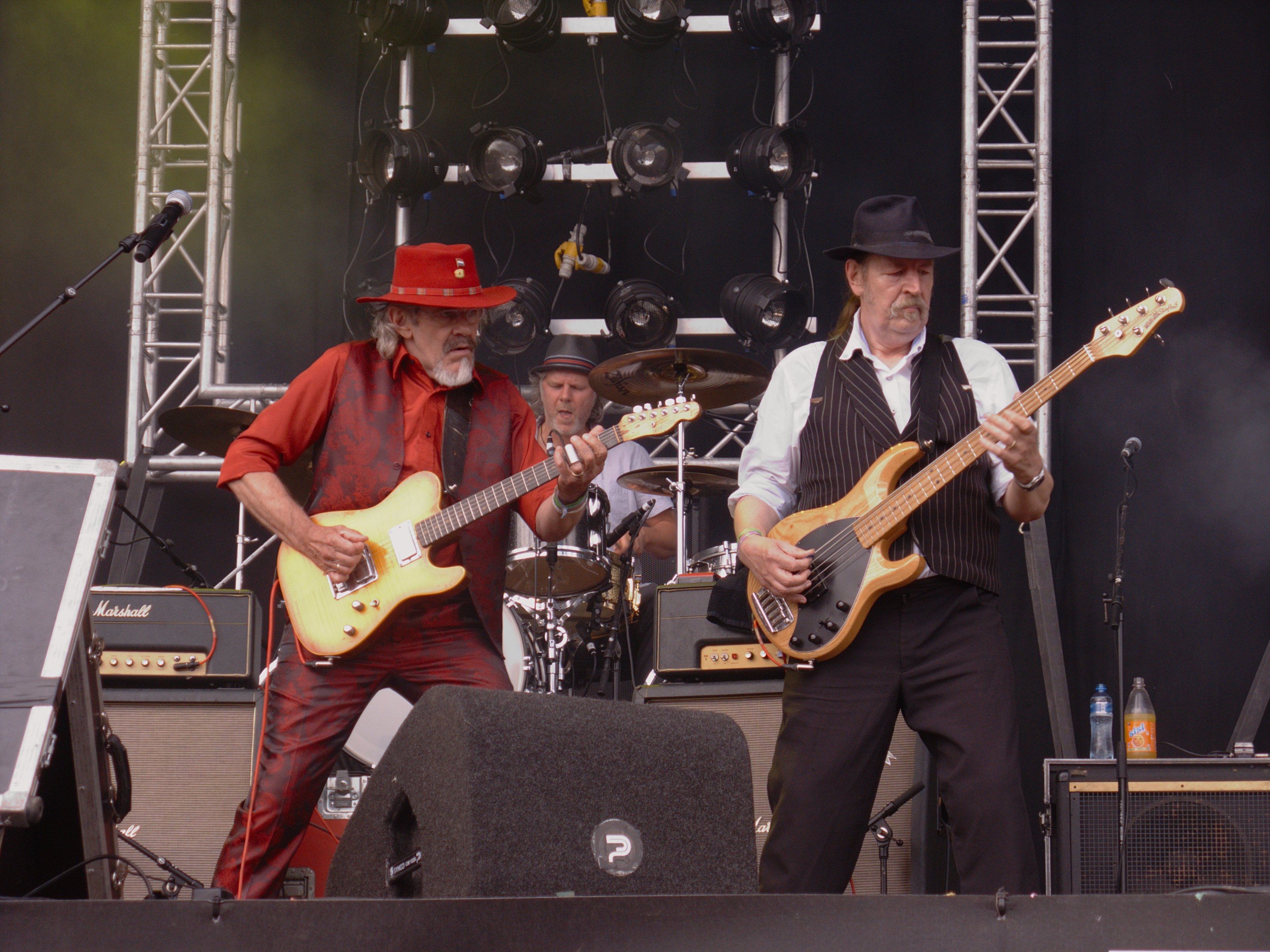 Normaal at Zwarte Cross 2011